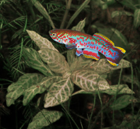 "Nigerian killi", Fundulopanchax gardneri nigerianus "Makurdi" (Clausen, 1963). A West African species of killifish in the order Cyprinodontiformes. This adult male stems from a locality outside of Makurdi, Nigeria.